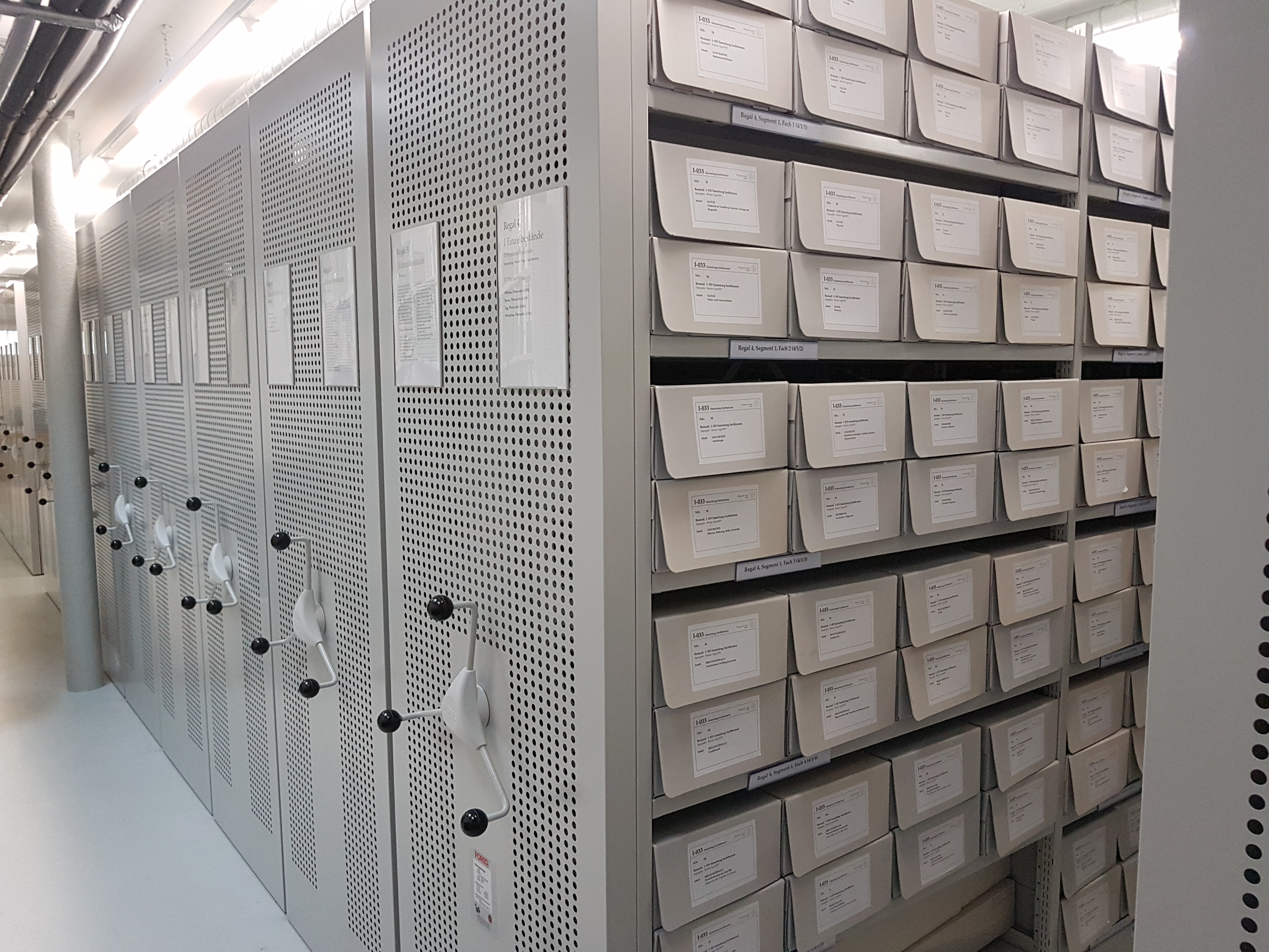 The Bregenzerwald Archive is located in the municipality of Egg in Vorarlberg and is responsible for the 24 municipalities of the Bregenzerwald region (Bregenz Forest).